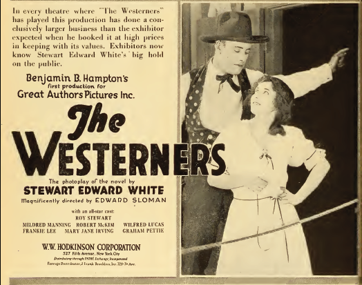 Ad for the film The Westerners (1919), directed by Edward Sloman, with Roy Stewart and Mildred Manning.